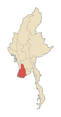 Ayeyarwady division in Myanmar